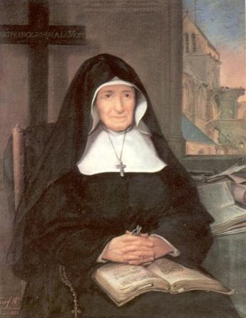 Portrait of Marie-Madeleine Postel, foundress of the Sisters of Christian Schools of Mercy, now the Congregation of Saint Marie-Madeleine Postel.